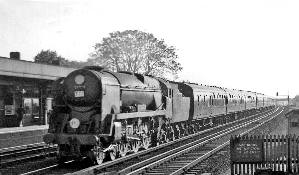 Plymouth - Waterloo express rushes through Raynes Park station. View westward, towards Woking etc., ex-LSW Waterloo - Woking and the West main line; the Down side of the station is seen from the west end of the Up main platform, as the platforms are staggered. The 11.46 Plymouth - Waterloo is headed by SR rebuilt Bulleid Light Pacific No. 34032 'Camelford' (built 6/46 as 21C132, rebuilt 10/60, withdrawn 10/66).